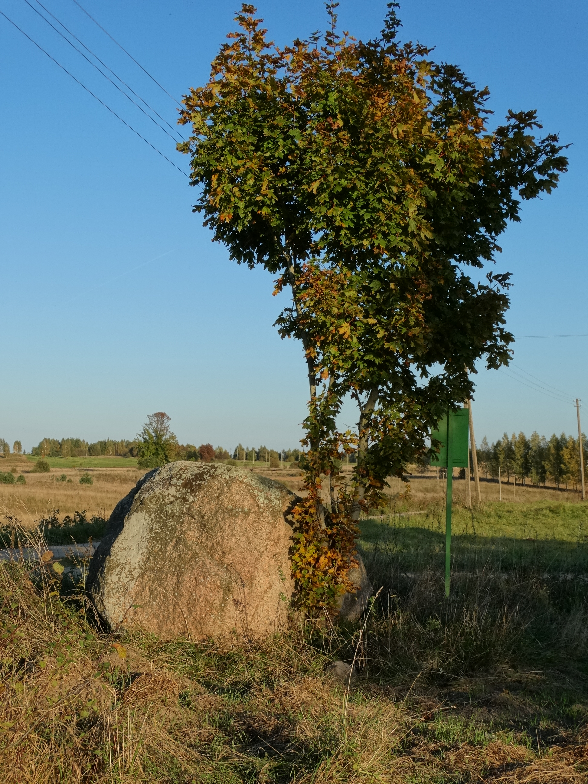 Stone, Butkiškės, Kaišiadorys district, Lithuania